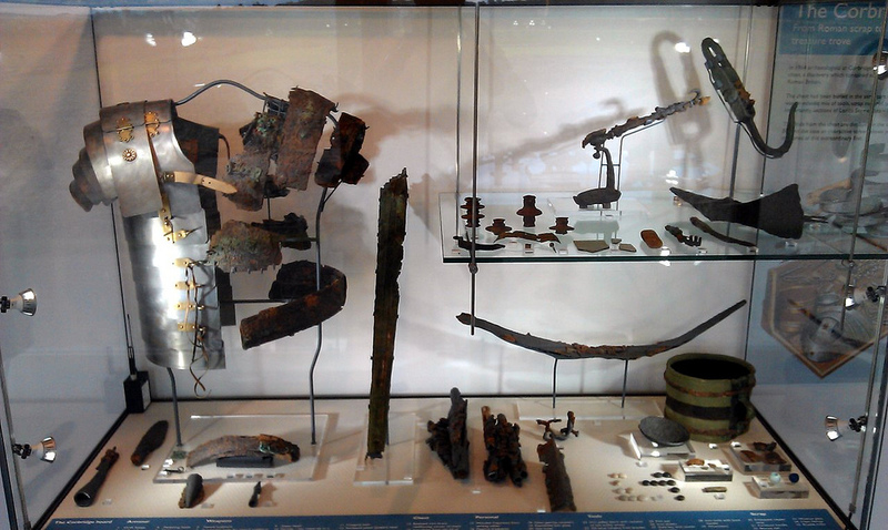 Reconstructed and original part of roman Lorica segmentata (Corbridge hoard) in Corbridge Museum.